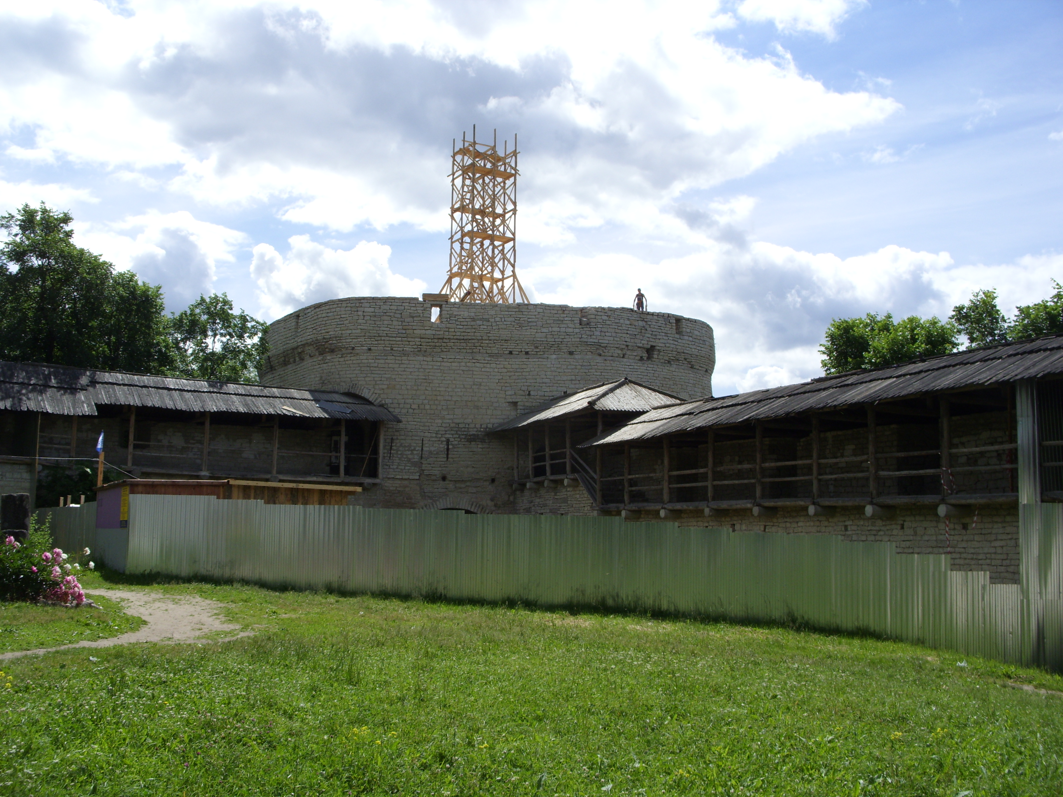 Pokrovskaja bashnja_ijun2010